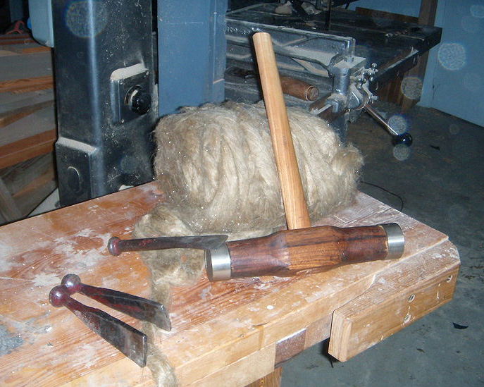 Tools for caulking, irons, and oakum